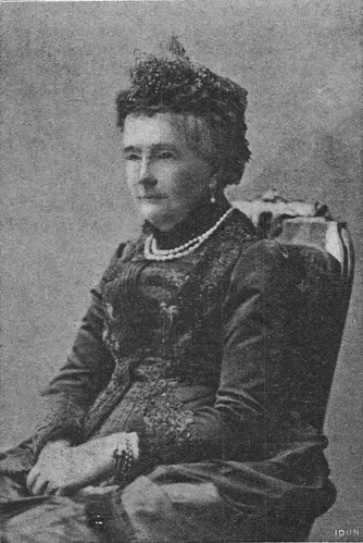 Swedish countess and courtier Clara Bonde (1806-1899)